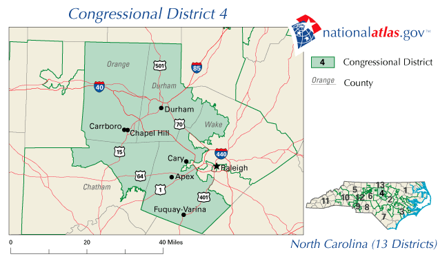 Map of the N.C. 4th Congressional District for the 111th Congress from the U.S. National Atlas